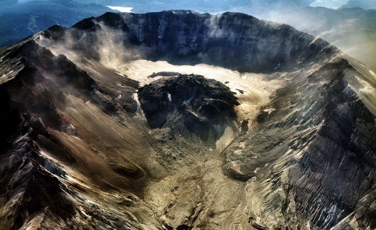 Mount St. Helens and Crater Glacier, Cascade Range, Washington, United States